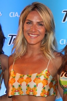 The actress Giovanna Ewbank.